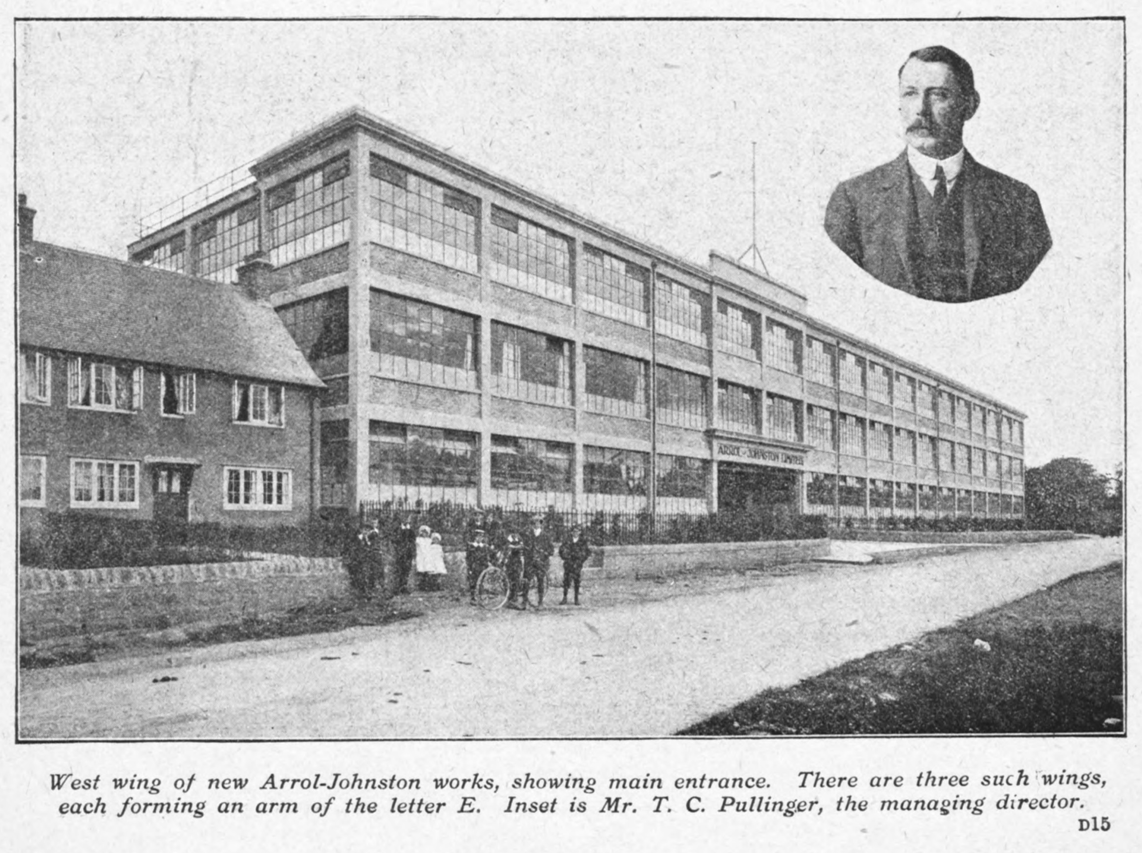 Arrol-Johnston (part of) new works building Dumfries, Scotland with inset photo of T C Pullinger Understood to have been Britain's first ferro-concrete building it was designed by Albert Kahn, architect of the Ford factory at Highland Park, Michigan